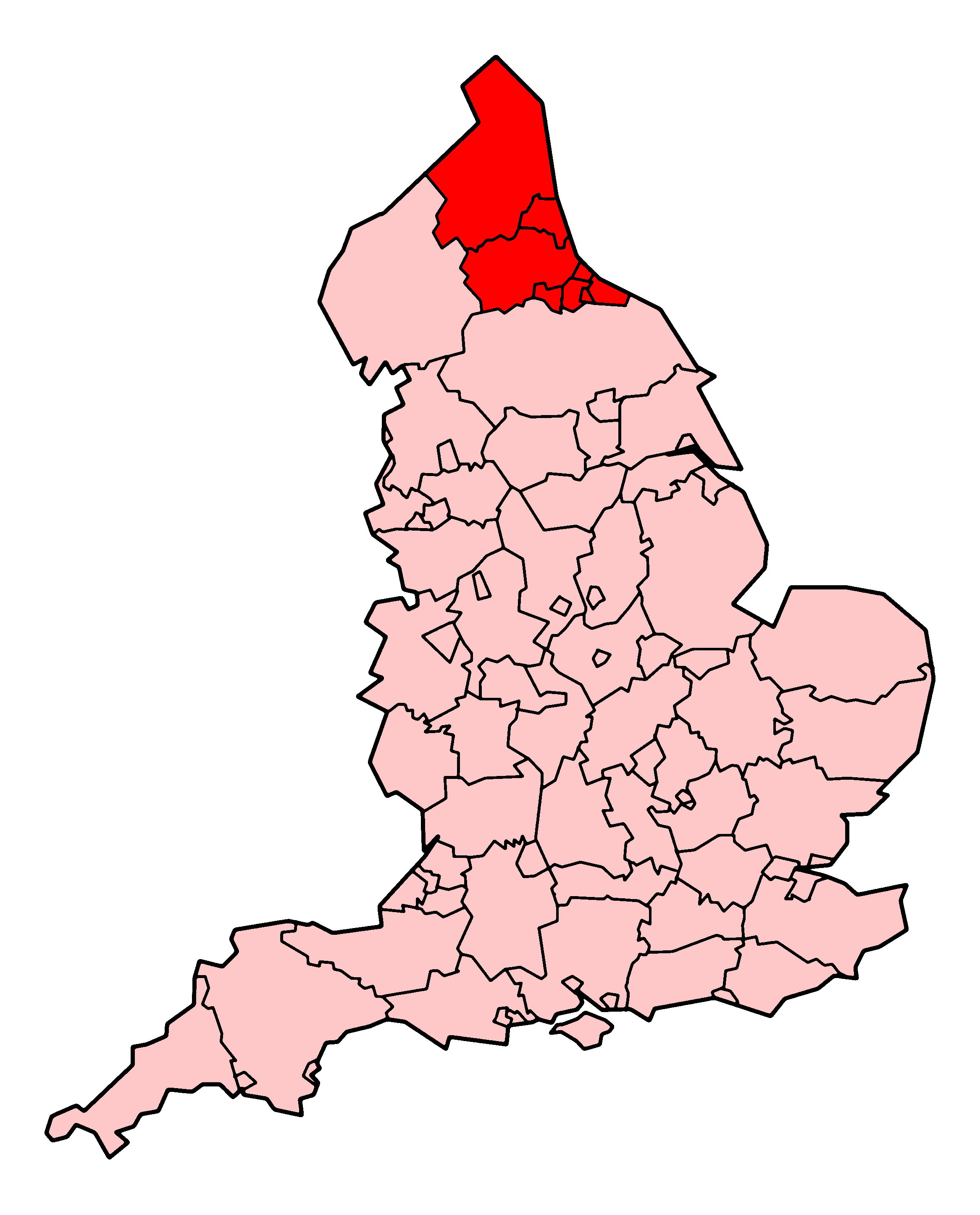 Map of the North East Ambulance Service's coverage area